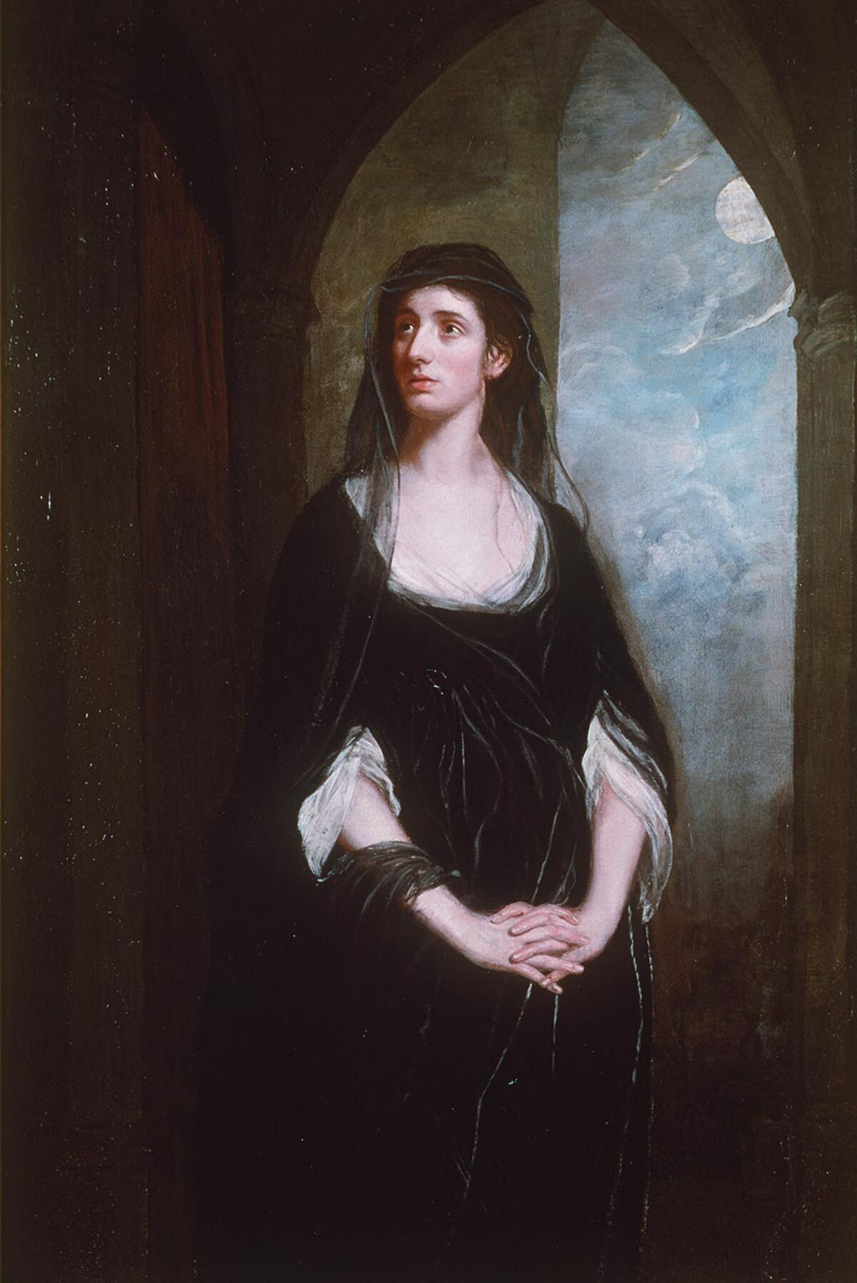 A painting from the Framed Works of Art collection at the National Library of wales.